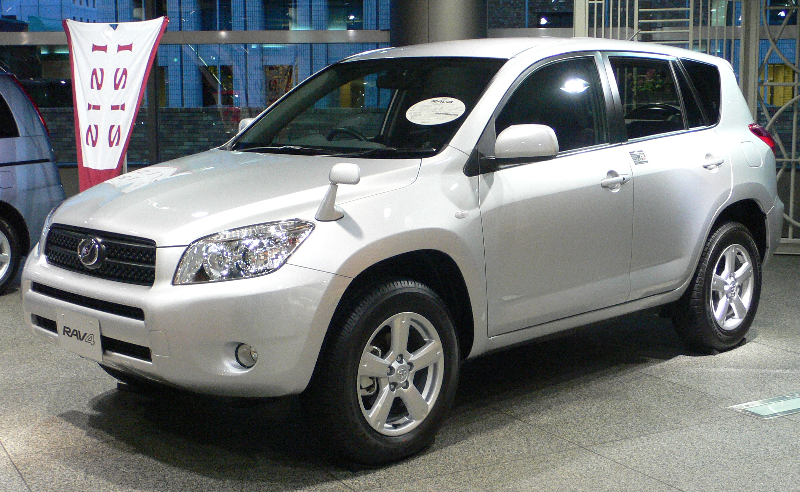 Toyota_RAV4(2005) taken in Showroom of Toyota-AMLUX